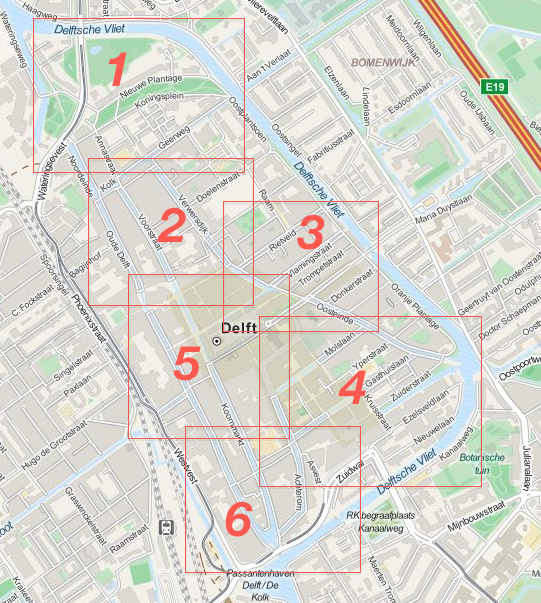 Map shows 6 blocks covering the centre of Delft. These blocks are represented in related images on Commons. Map is based on